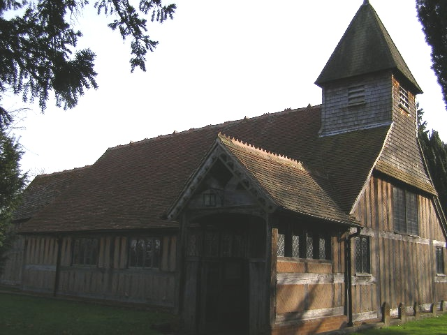 Mattingley Church Mattingley Church is Grade I listed; it was built in the 15th & 16th Centuries and restored in 1837. It is red brick herringbone pattern, with timber frame.